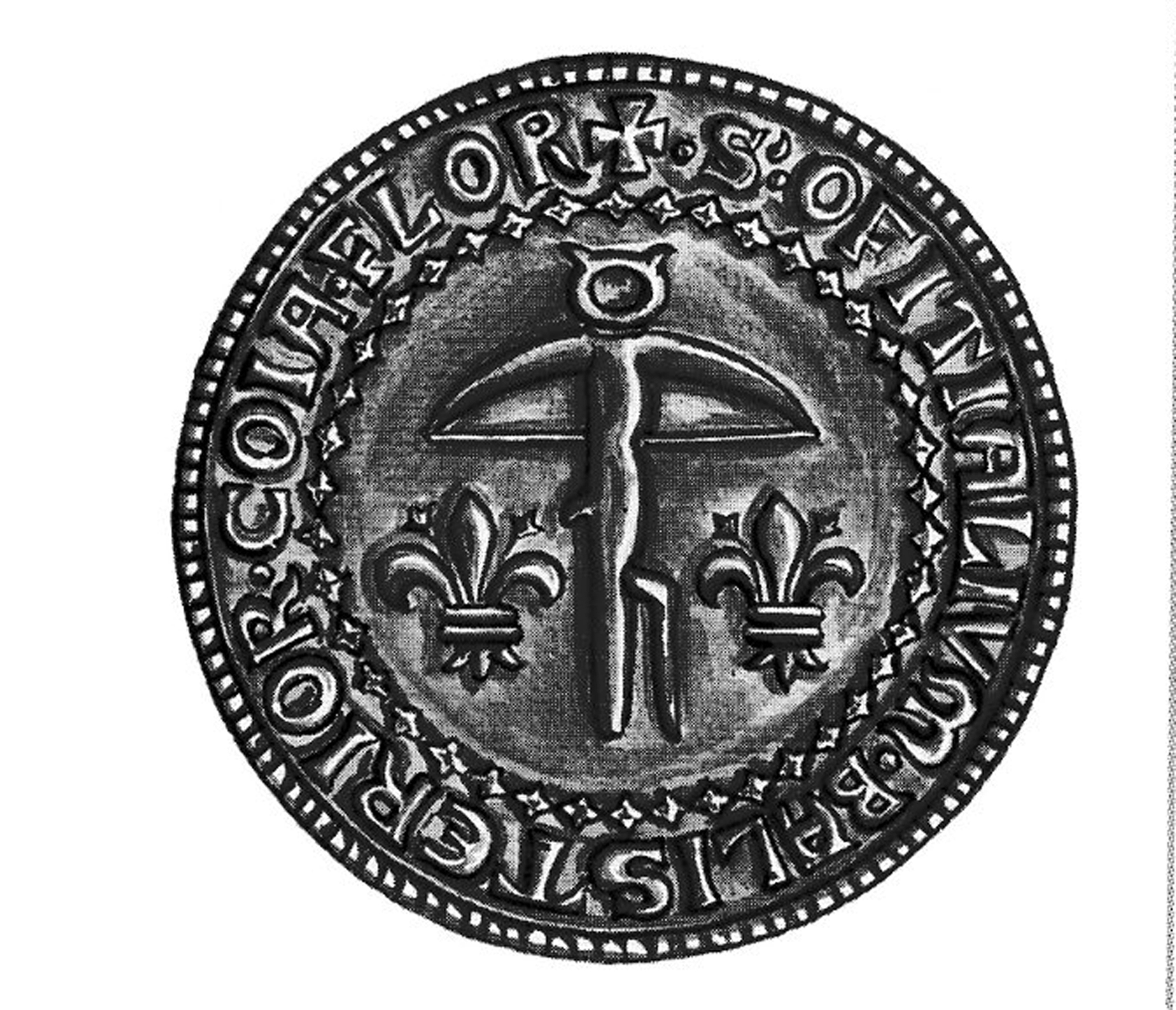 Bronze seal of the Officers of the Florentine Crossbowmen